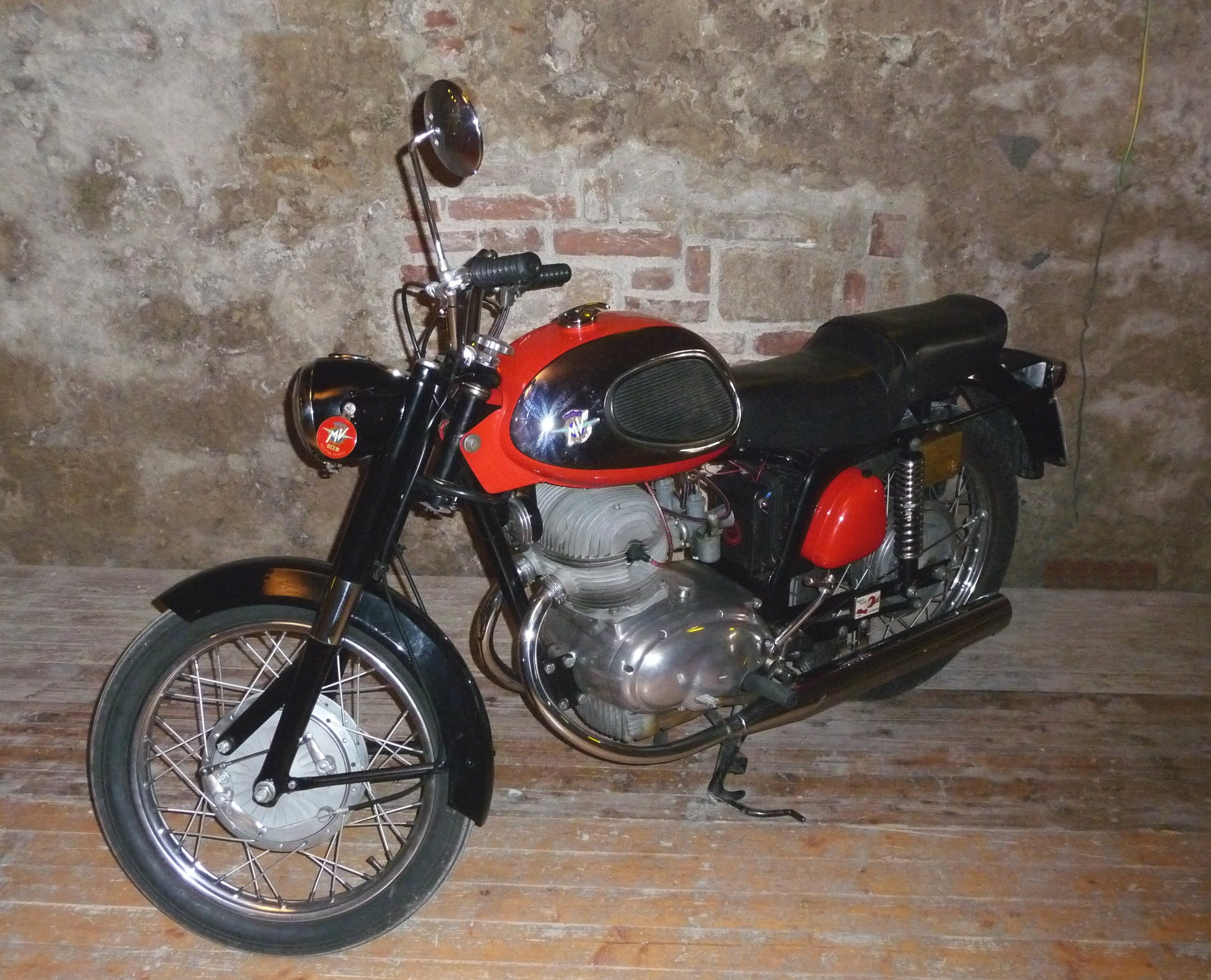 Motorcycle MV Agusta 350 GT (1972)